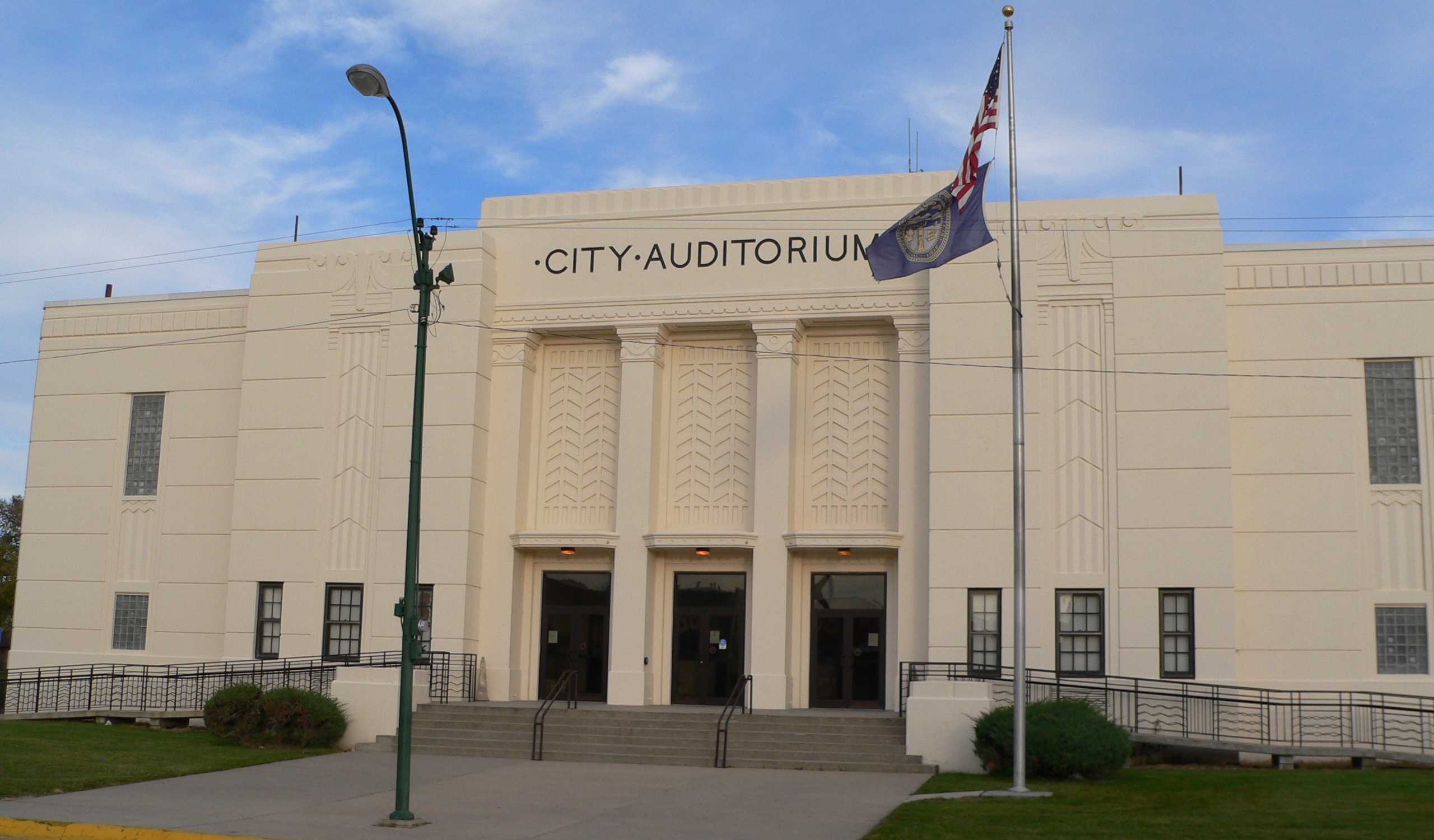 Front (west side) of York City Auditorium, located at 612 N Nebraska Ave, York, Nebraska. The building was designed in Art Deco style by Lincoln architectural firm Meginnis & Schaumberg. It was built in 1940.